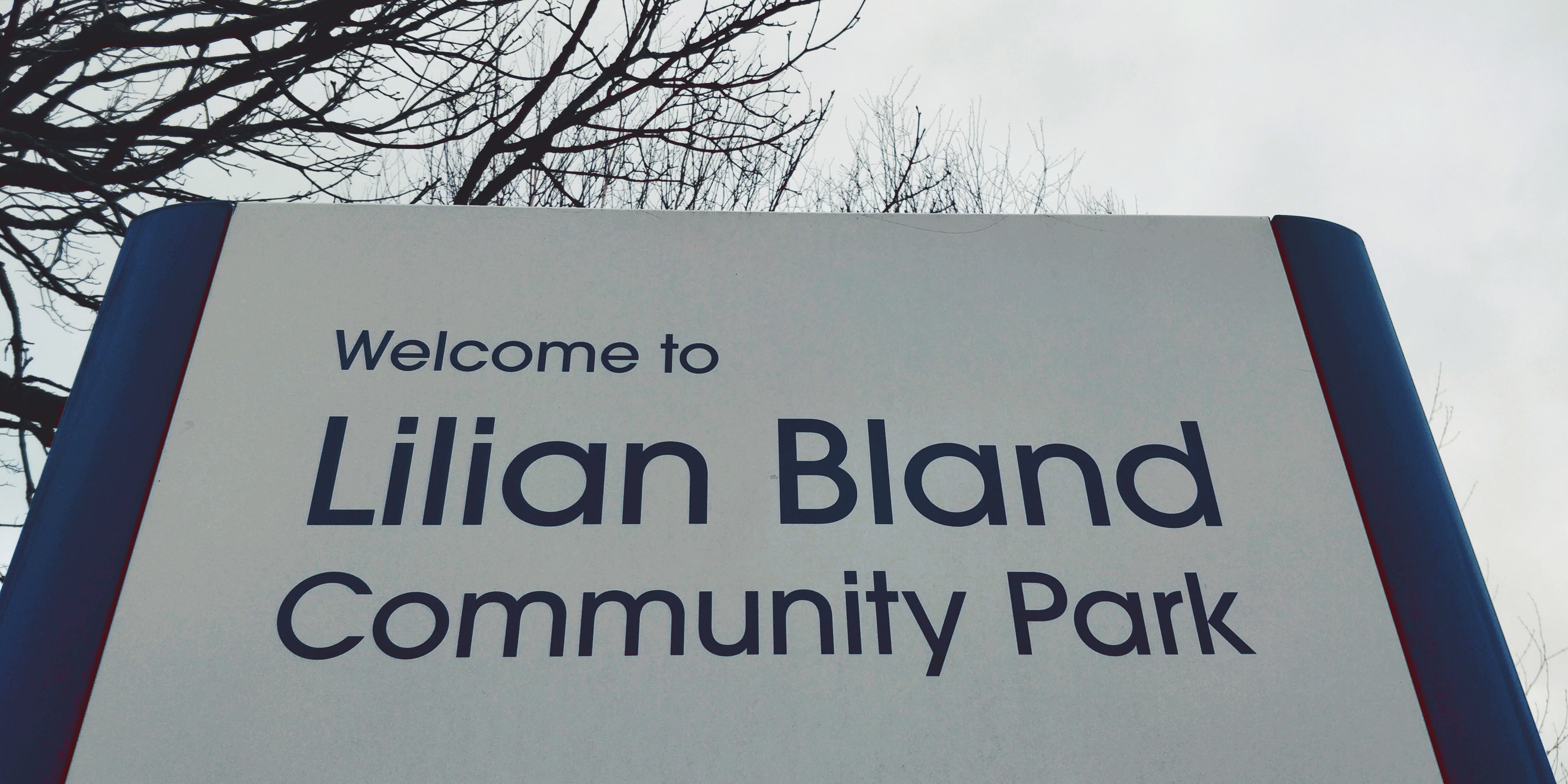 White sign with blue edges, writing "Welcome to Lilian Bland Community Park"